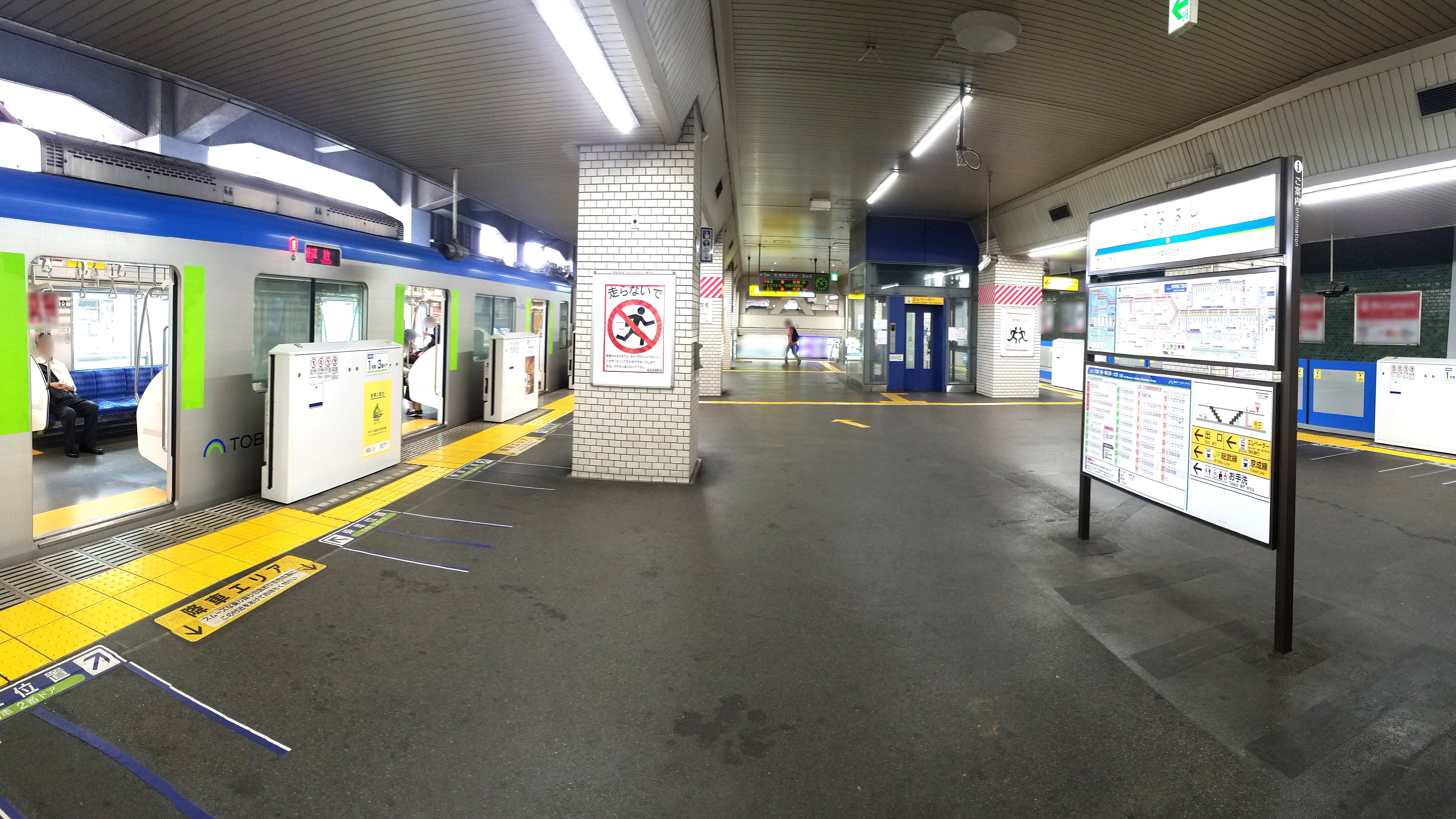 The platform at Funabashi Station on the Tōbu Noda Line(Tōbu Urban Park Line) in Funabashi city, Chiba prefecture, Japan